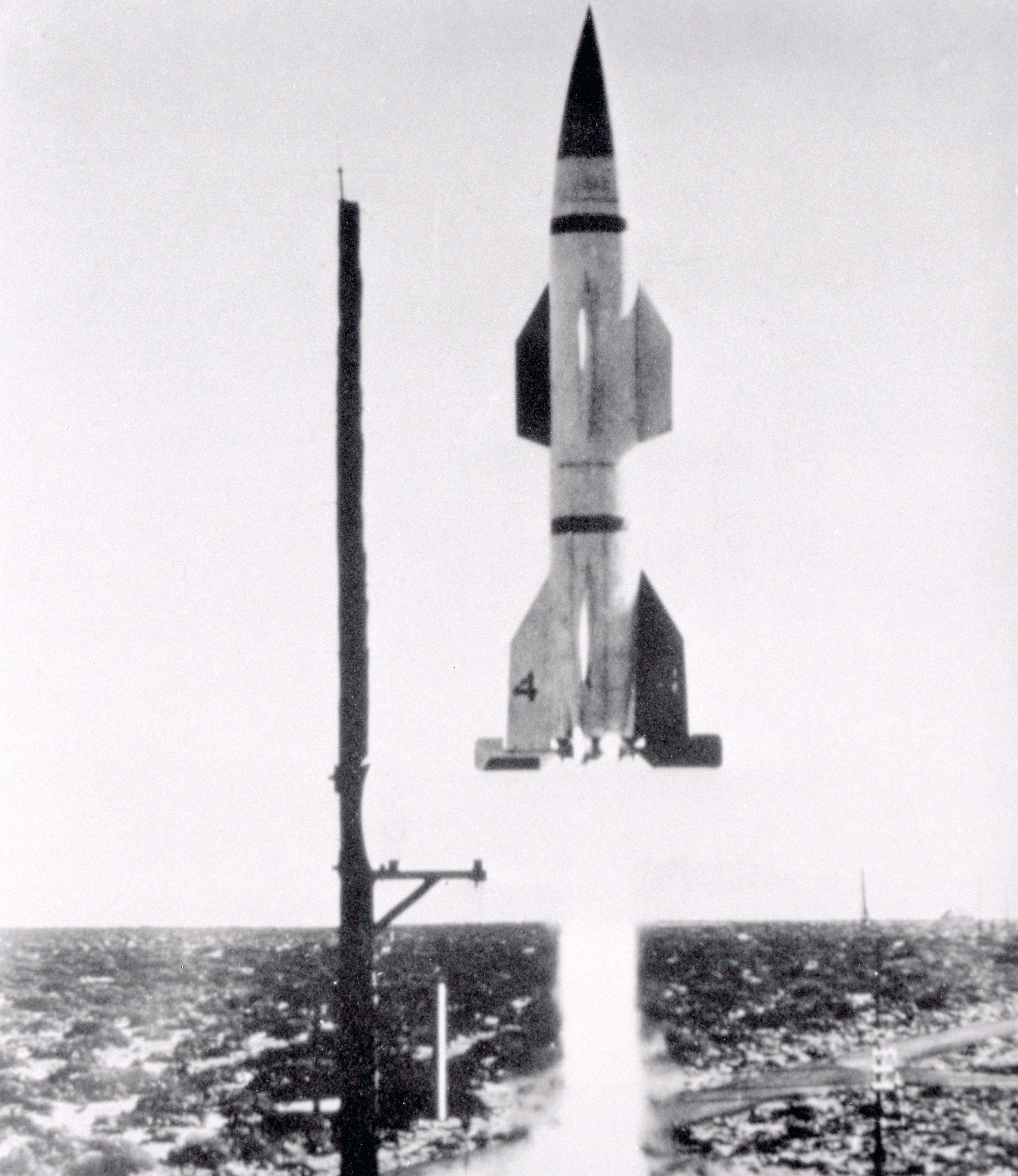 The first Hermes A-1 test rocket was fired at White Sand Proving Ground (WSPG). Hermes was a modified V-2 German rocket, utilizing the German aerodynamic configuration; however, internally it was a completely new design. Although it did not result in an operational vehicle, the information that was gathered in the process contributed directly to the development of the Redstone rocket.